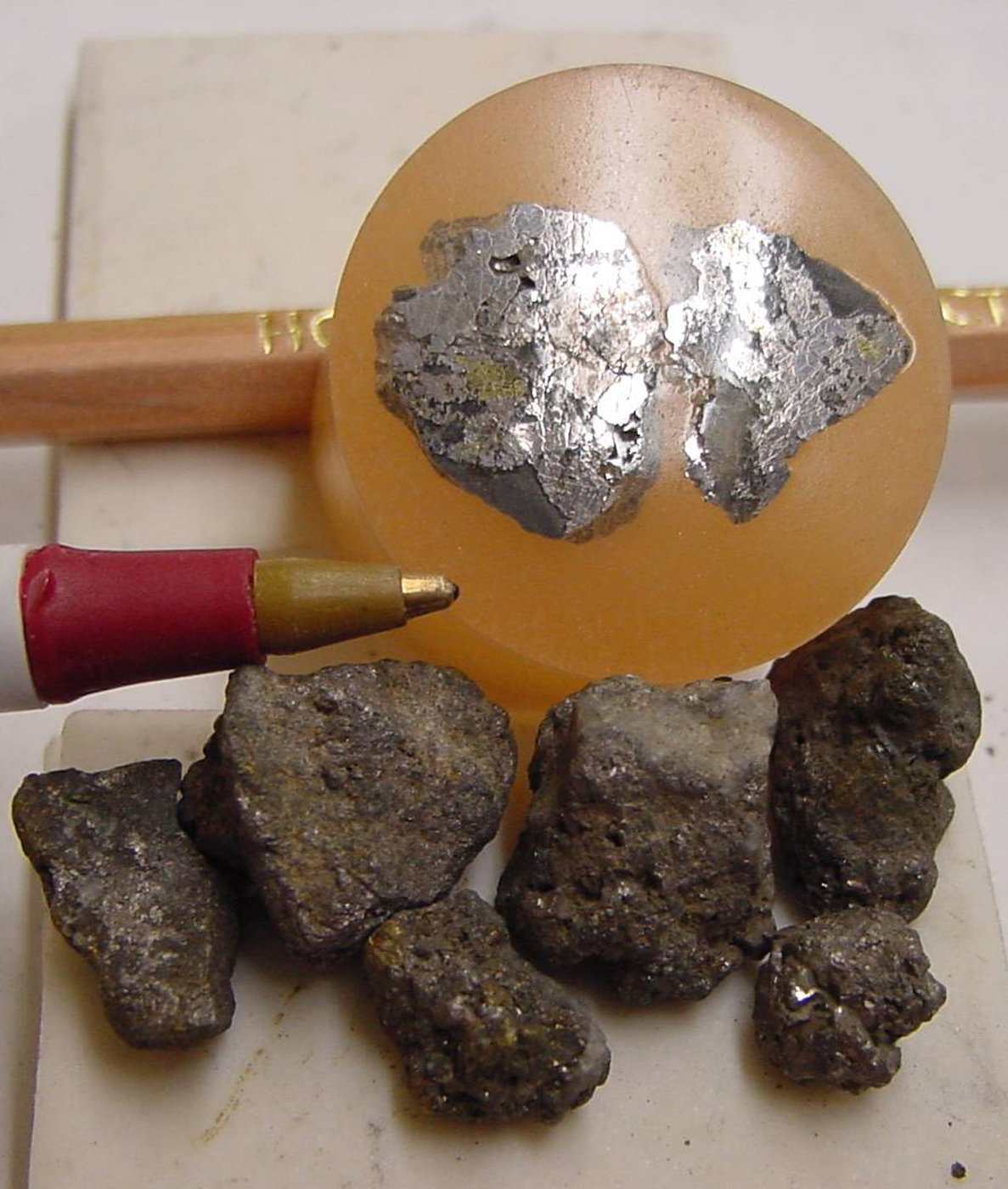 Linnaeite (pen for scale) - Mineral collection of Brigham Young University Department of Geology, Provo, Utah - BYU index 2-8081, Co3S4